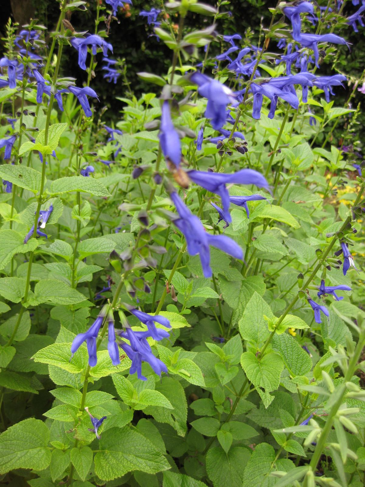 Photographed at Huntington Gardens (Los Angeles) in June